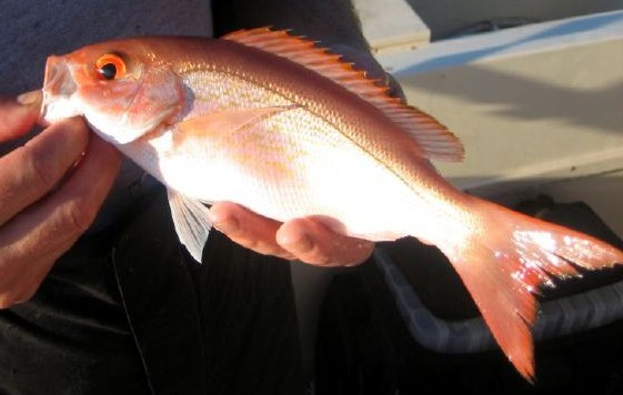 We guessed this to be a vermillion snapper Rhomboplites aurorubens caught off Morehead City, NC.